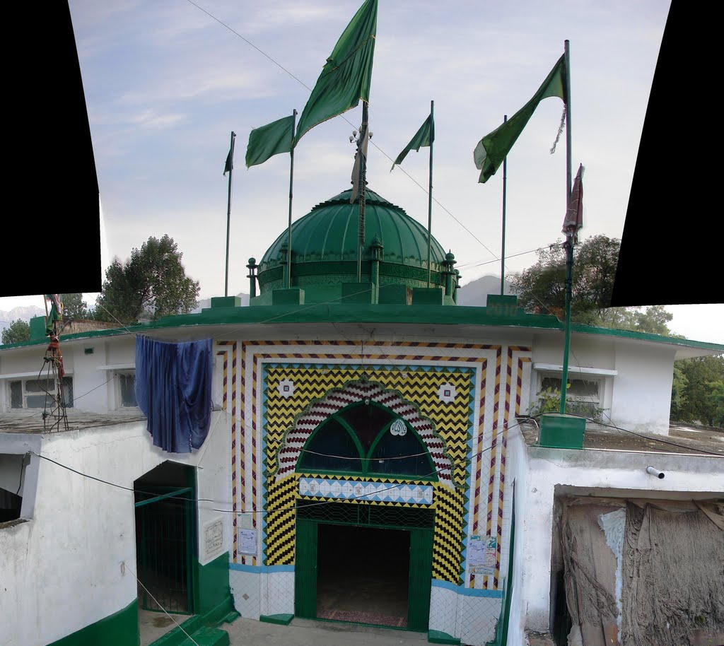 View of Pirbaba Mazar Pacha Killi Bunir